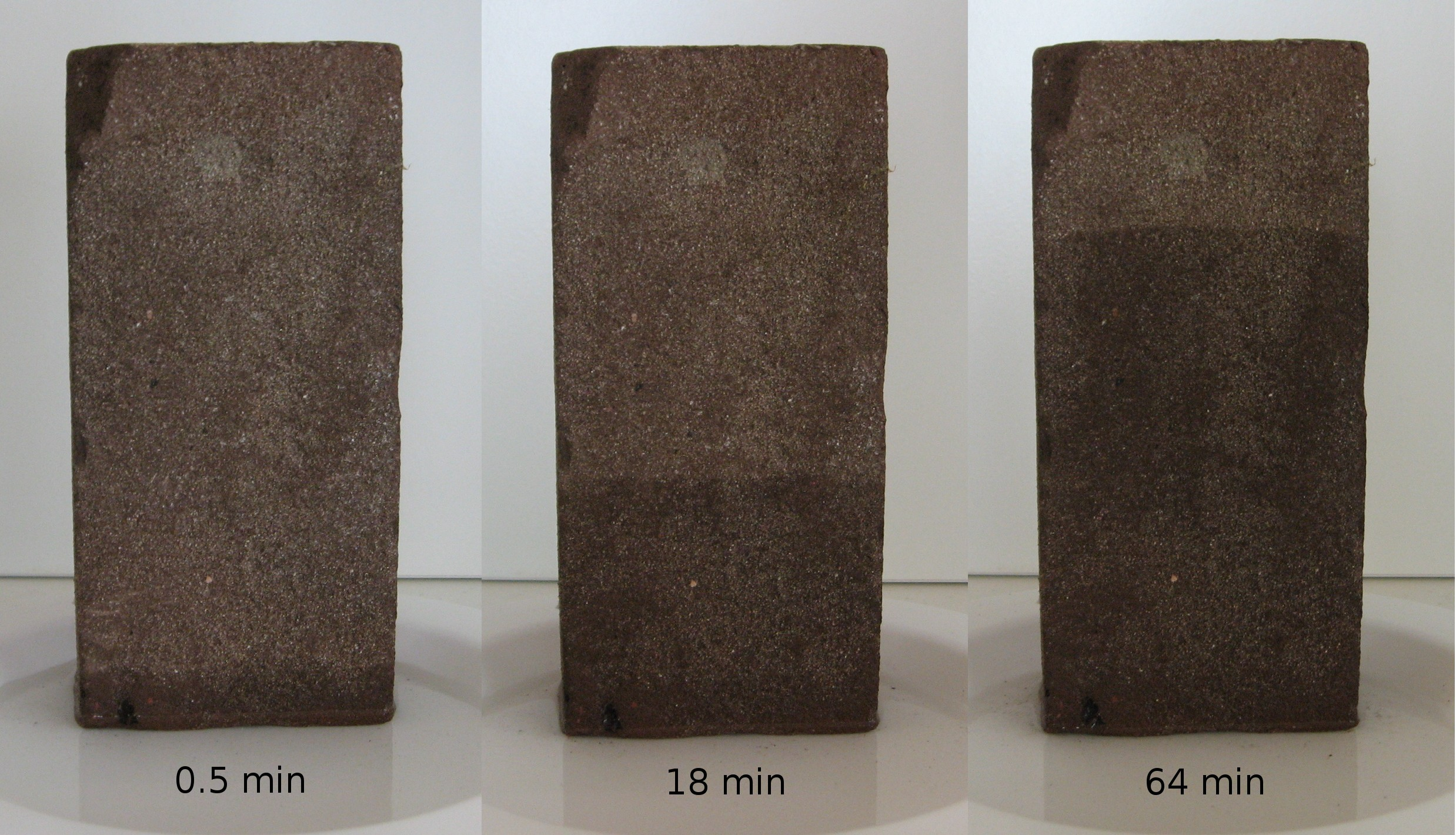 Capillary water flow in a brick that is in contact with water at the bottom. The time elapsed after first contact with water is indicated. The brick height is 225 mm. From the weight increase, the estimated porosity is 25%.